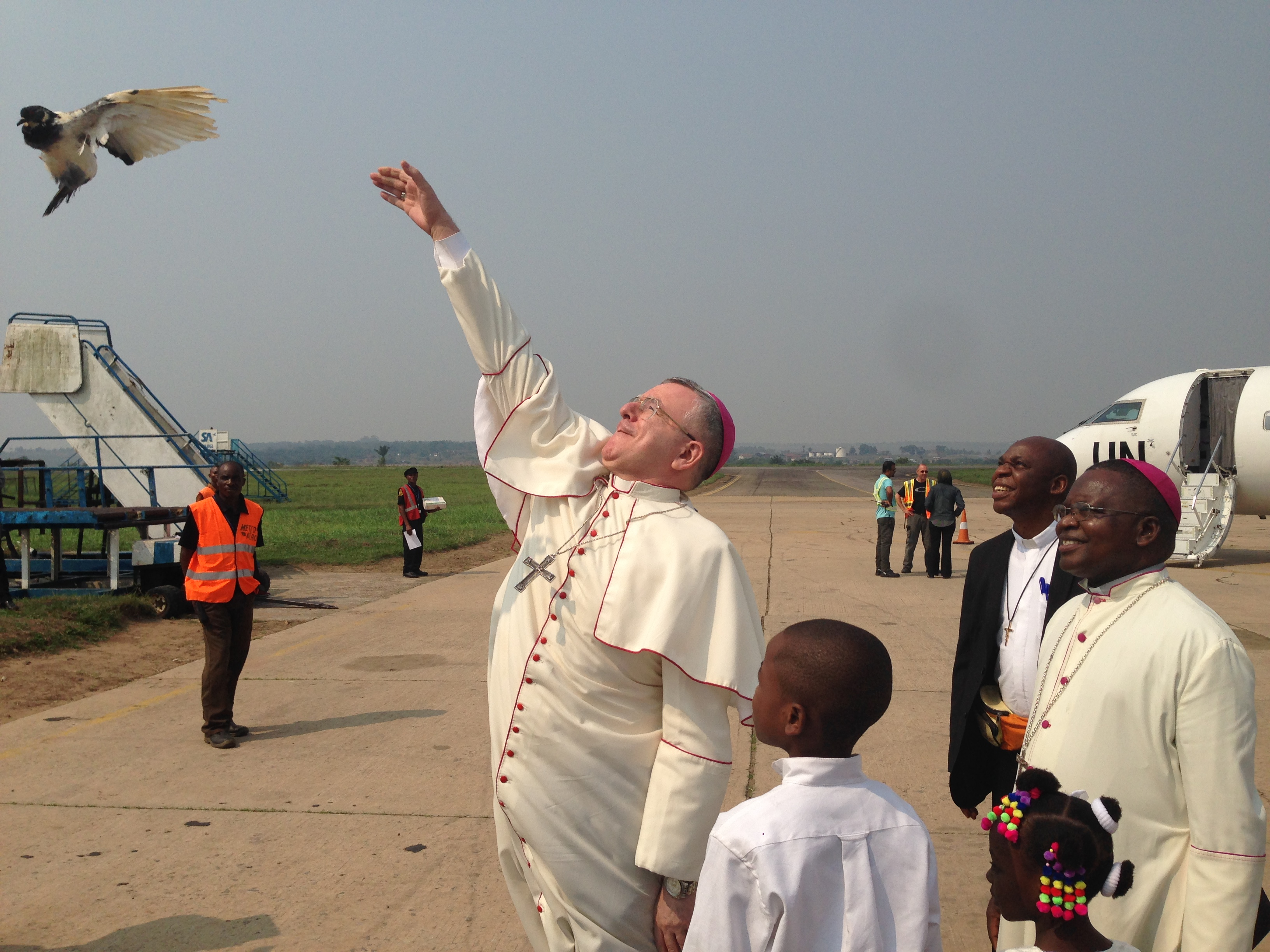 Kananga, Kasai-Central, DR Congo: The apostolic nuncio, Monsignor Montemayor, releases a dove, symbolizing peace, upon his arrival at airport in Kananga on September 7th. A trip facilitated by MONUSCO to enable him to bring some comfort to the people of this region which was badly hit by violence some time ago. He is accompanied by the president of CENCO, Monsignor Utembi, and by the archbishop of Kananga, Monsignor Madila.